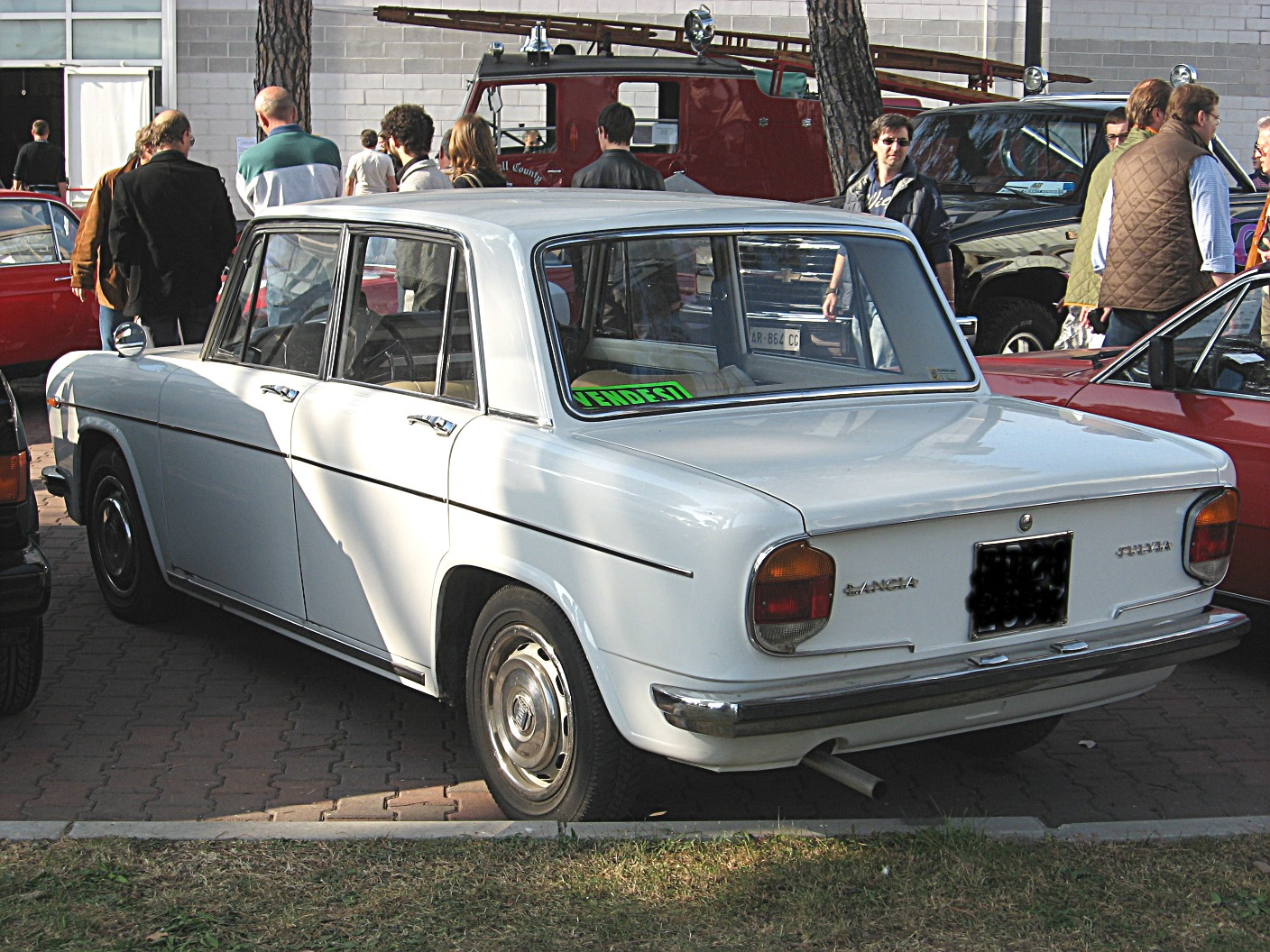 Subject: Lancia Fulvia 1970 restyling Date:October 26th, 2008 Event: Auto e Moto d'Epoca 2008 Place/Country: Padova, Italy I release all rights in the public domain.